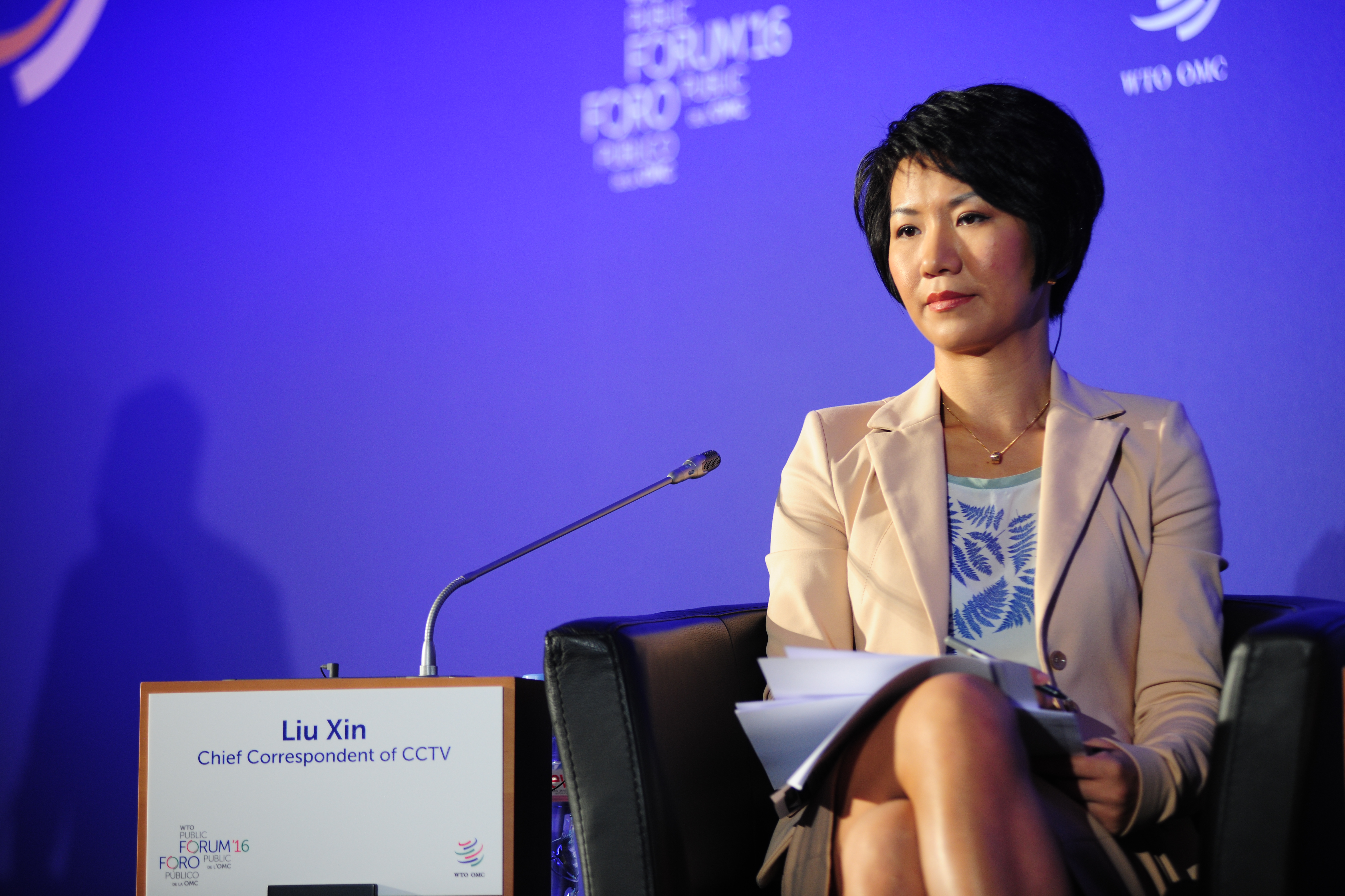 Liu Xin at WTO Public Forum 2016